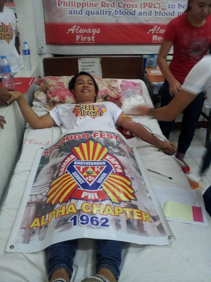 Participants of the Gamma Kappa Phi Alumni during Blood donations for Bloodletting Activity at the Philippine Red Cross in Tagbilaran City, Bohol